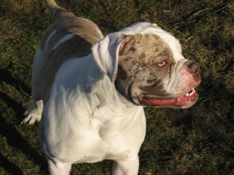 MALE CHOCOLATE MERLE ALAPAHA BLUE-BLOOD BULLDOG